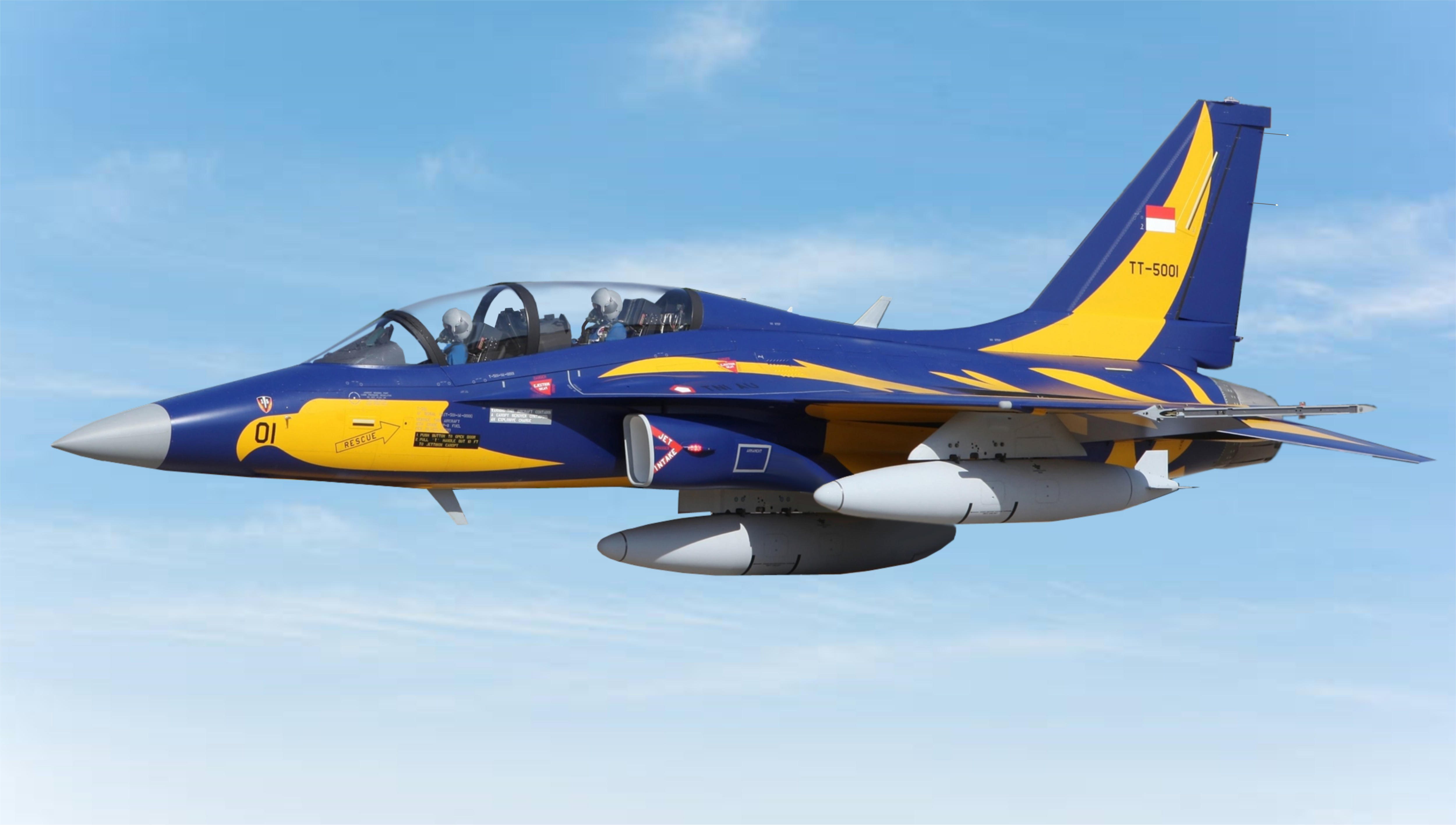 KAI T-50i Indonesia in flight